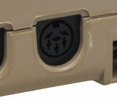 Commodore 64 serial IEEE-488 port (cropped from File:Commodore-64-Back.jpg)